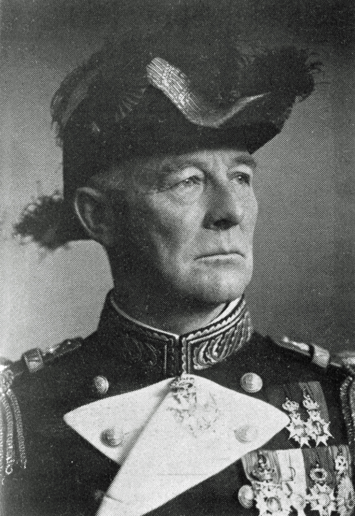 Admiral Gunnar Unger.